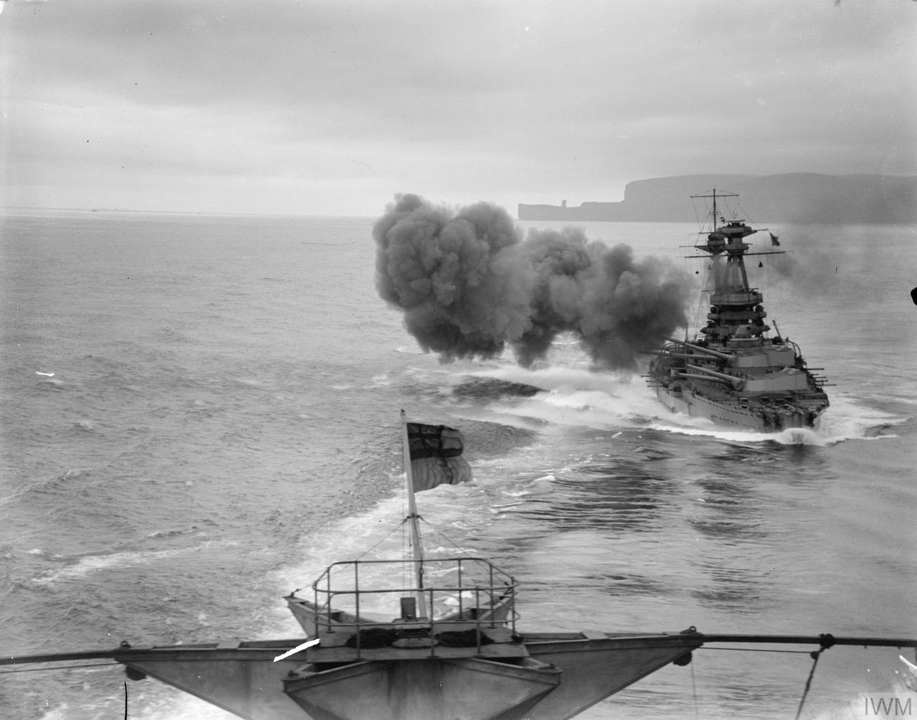 The Royal Navy during the First World War British battleship HMS Royal Oak firing 15 inch guns.